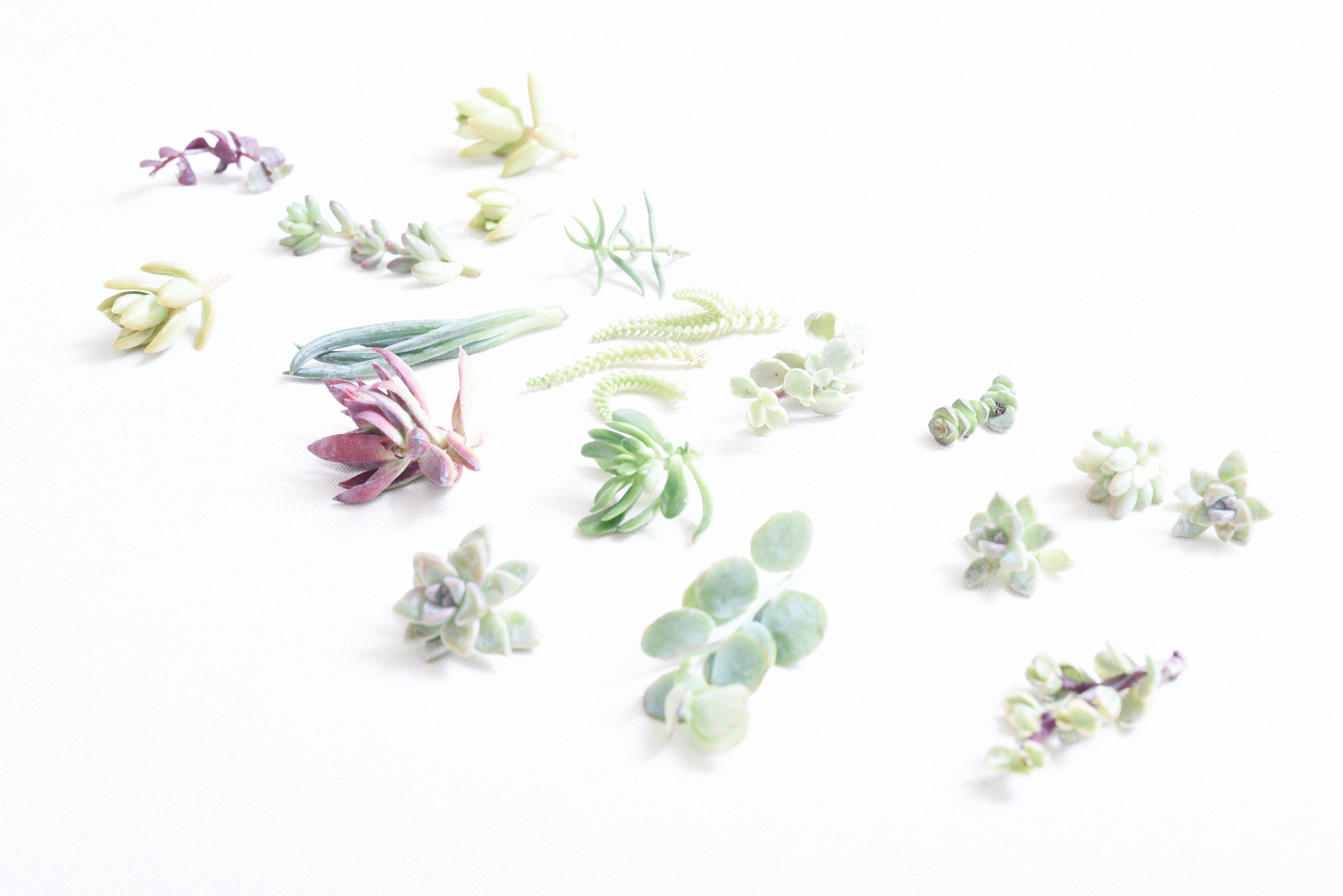 Cuttings from a variety of succulents.